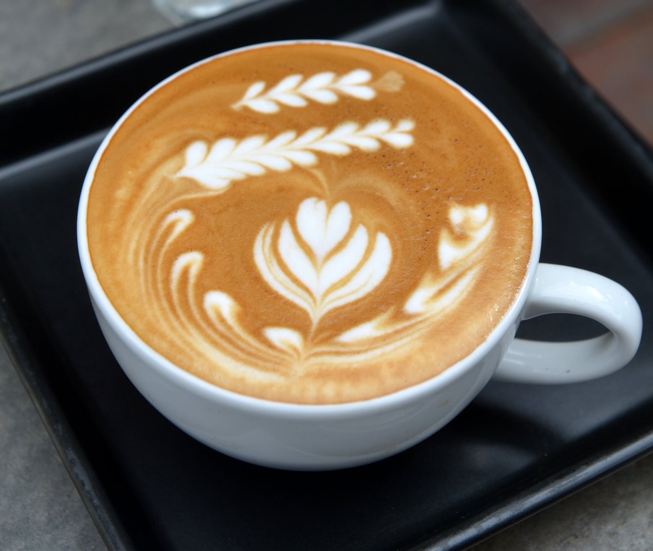 Latte art at Doppio Ristretto in Chiang Mai. The artist won several championships in Australia and came in 6th at the world championship in 2011. The figure in the centre is a "tulip", above it are two series of "hearts", and the figure along the lower side of the cup is a combined "rosetta" and a series of "hearts".